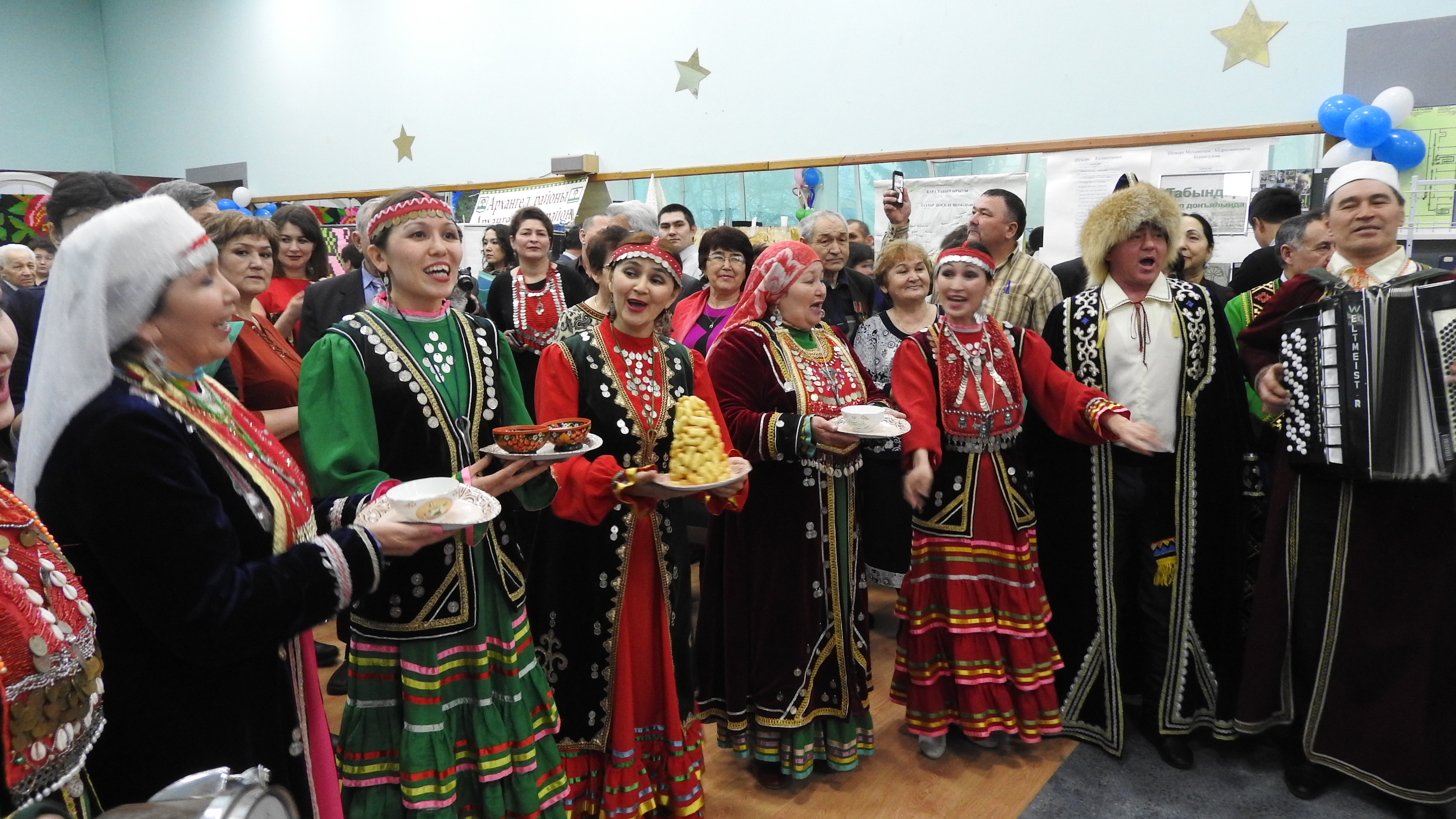 IV Congress of Bashkir Tabyn. Ufa. 25 Feb 2017. Башҡортса: Табын ырыуының 4-се йыйыны. Өфө. 25 февраль 2017 йыл.